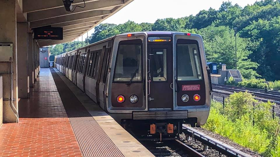 WMATA Rehab Breda 3000 Series departing Greenbelt on the Yellow Line